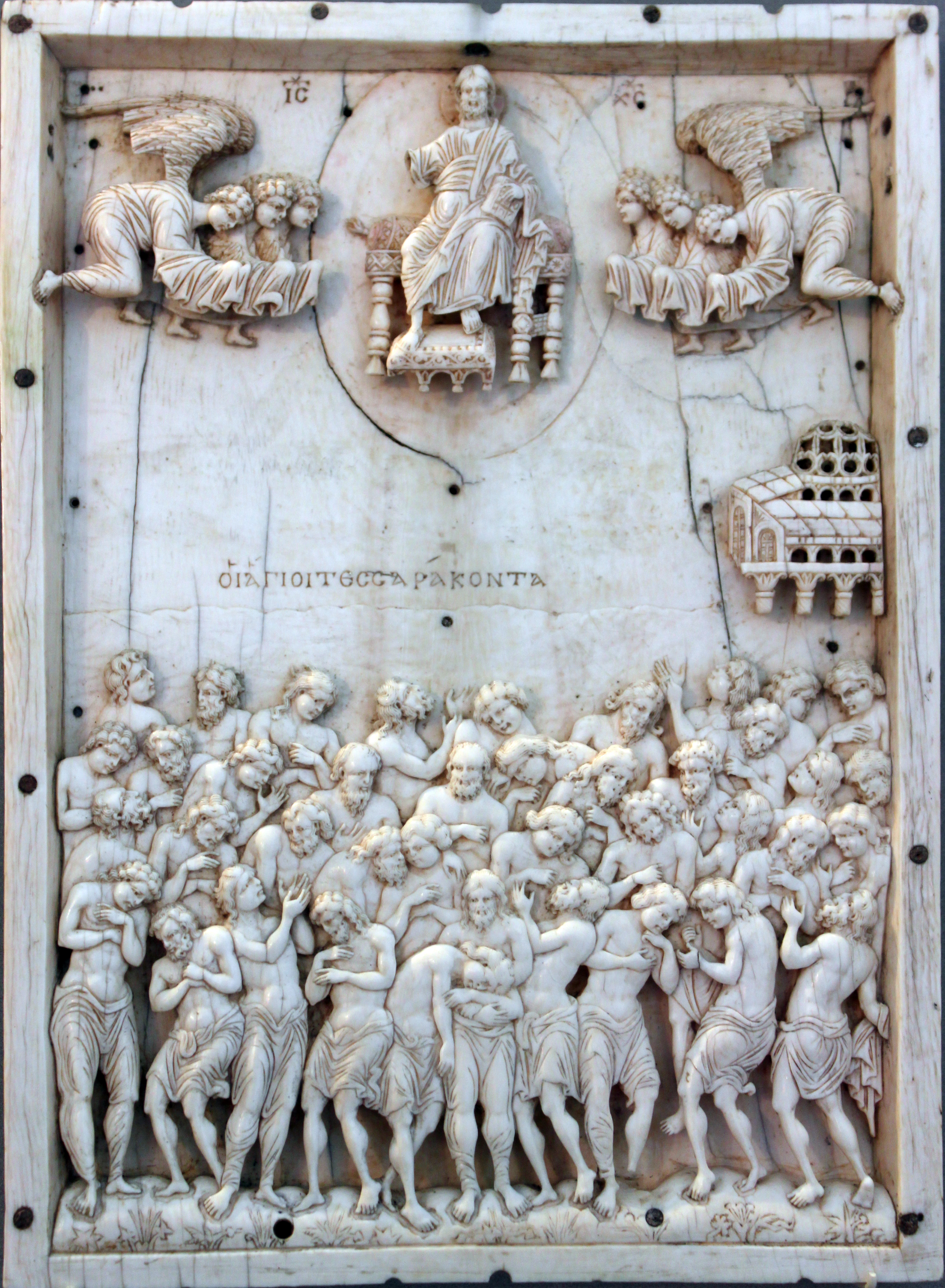 Relief plaque with the Forty Martyrs of Sebaste, Constantinople, 10 Century, Museum of Byzantine Art (inv. 2108), Bode Museum, Berlin